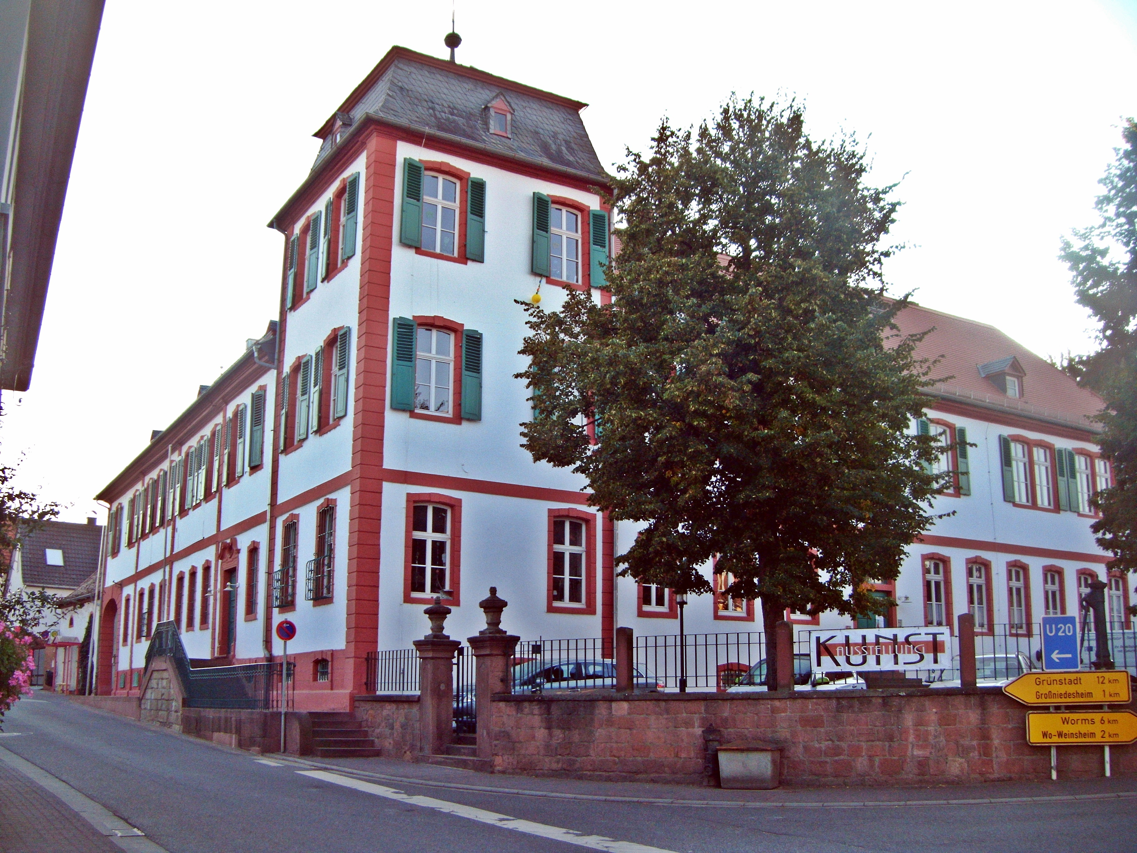 Schloss Kleinniedesheim